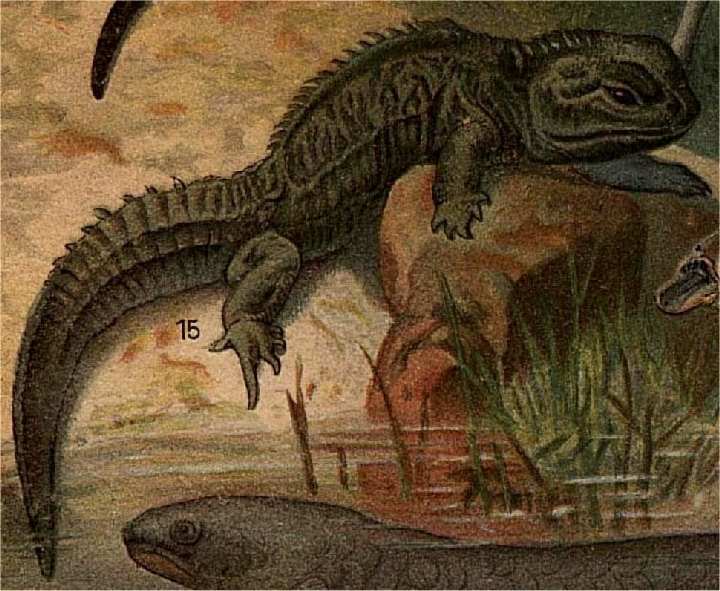 Sphenodon punctatus